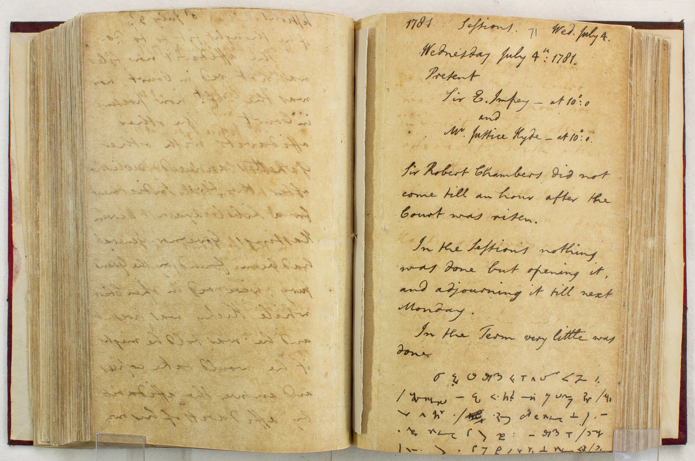 A page from Hyde's Notebooks